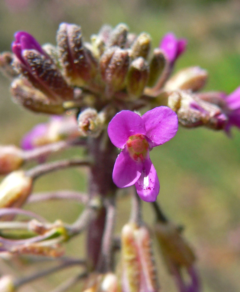 Photo of Arabis perennans at the Regional Parks Botanic Garden, Berkeley, California